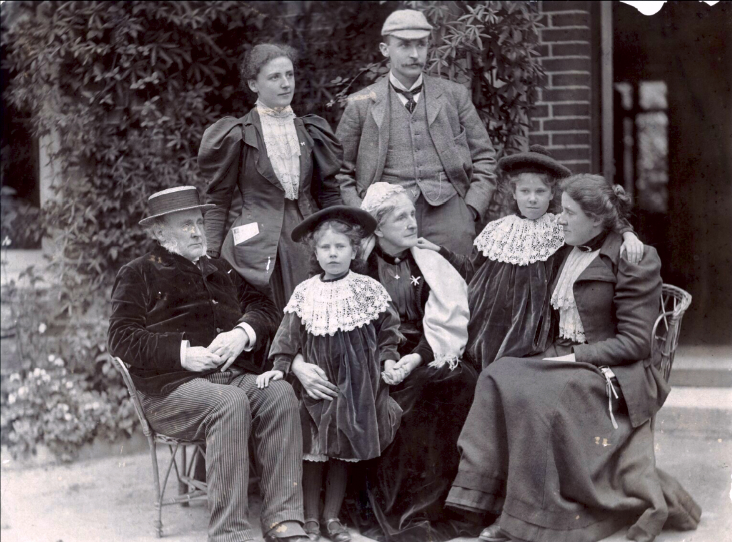 Gelatin printing-out paper print on car. Sitters: Mary Berenson (née Smith) (1864-1945), Art historian; former wife of Frank Costelloe, and later wife of Bernard Berenson; daughter of Robert Pearsall Smith. Alys Whitall Russell (née Pearsall Smith) (1867-1951), First wife of Bertrand Russell; daughter of Robert Pearsall Smith. Hannah Smith (née Whitall) (Mrs Pearsall Smith) (1832-1911), Evangelist and religious writer. (Lloyd) Logan Pearsall Smith (1865-1946), Writer. Robert Pearsall Smith (1827-1899), Lay leader in the Holiness movement and the Higher Life movement. Catherine Elizabeth Conn ('Karin') Stephen (née Costelloe) (1889-1953), Psychoanalyst and psychologist. Rachel Pearsall Conn ('Ray') Strachey (née Costelloe) (1887-1940), Feminist activist and writer.